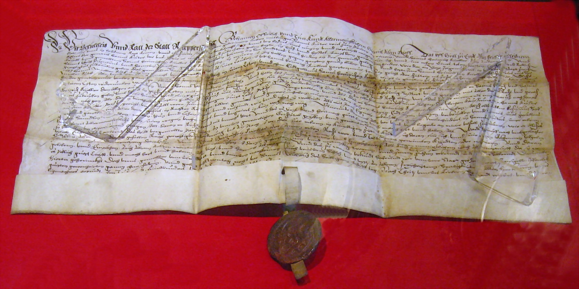 'Stadtmuseum Rapperswil-Jona' : Deed Seal with Veduta of Rapperswil and its bridge by Rudolf IV, Duke of Austria, 1361.